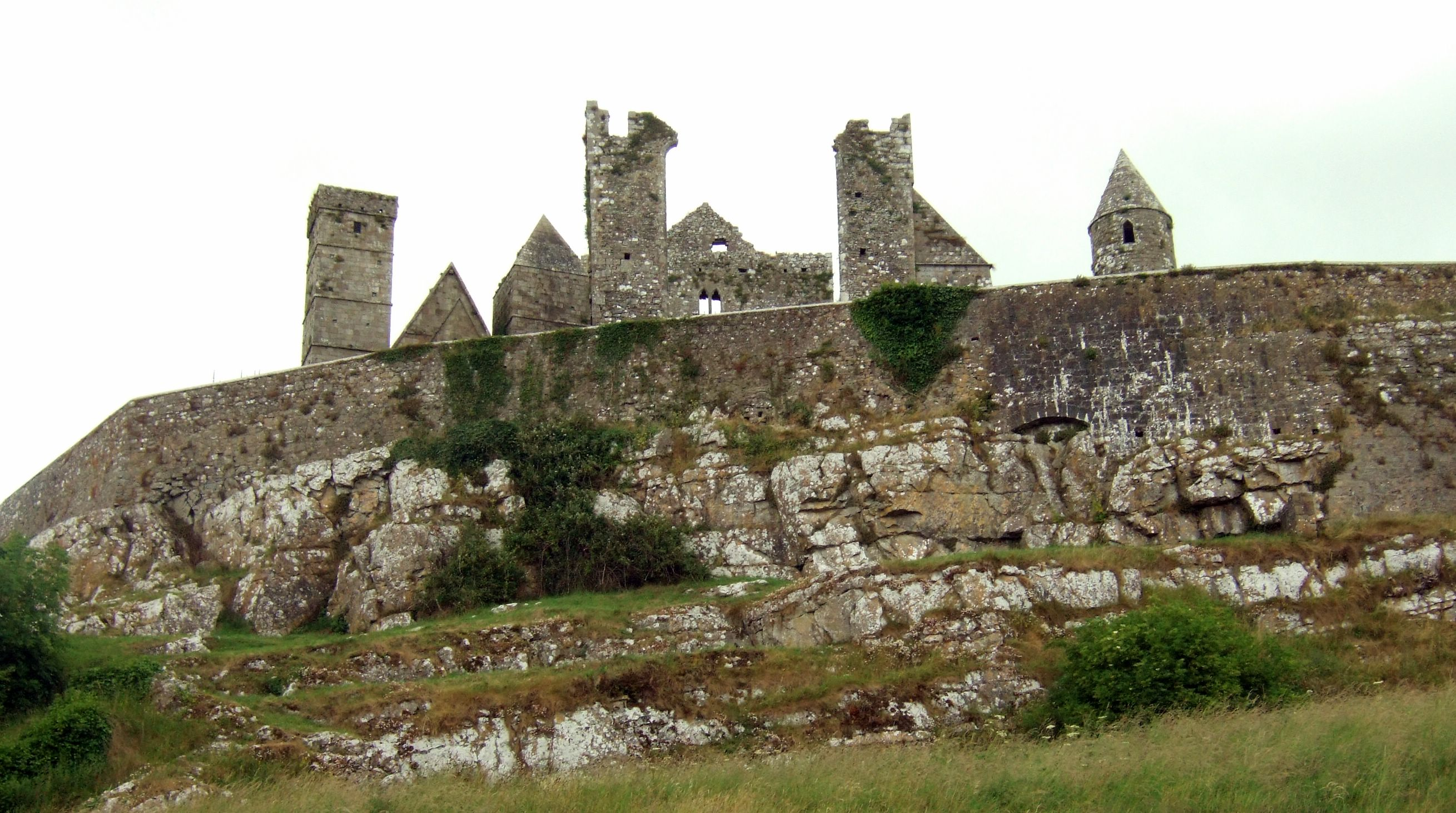 View of the Rock of Cashel from the outside (not sure which direction). By me.